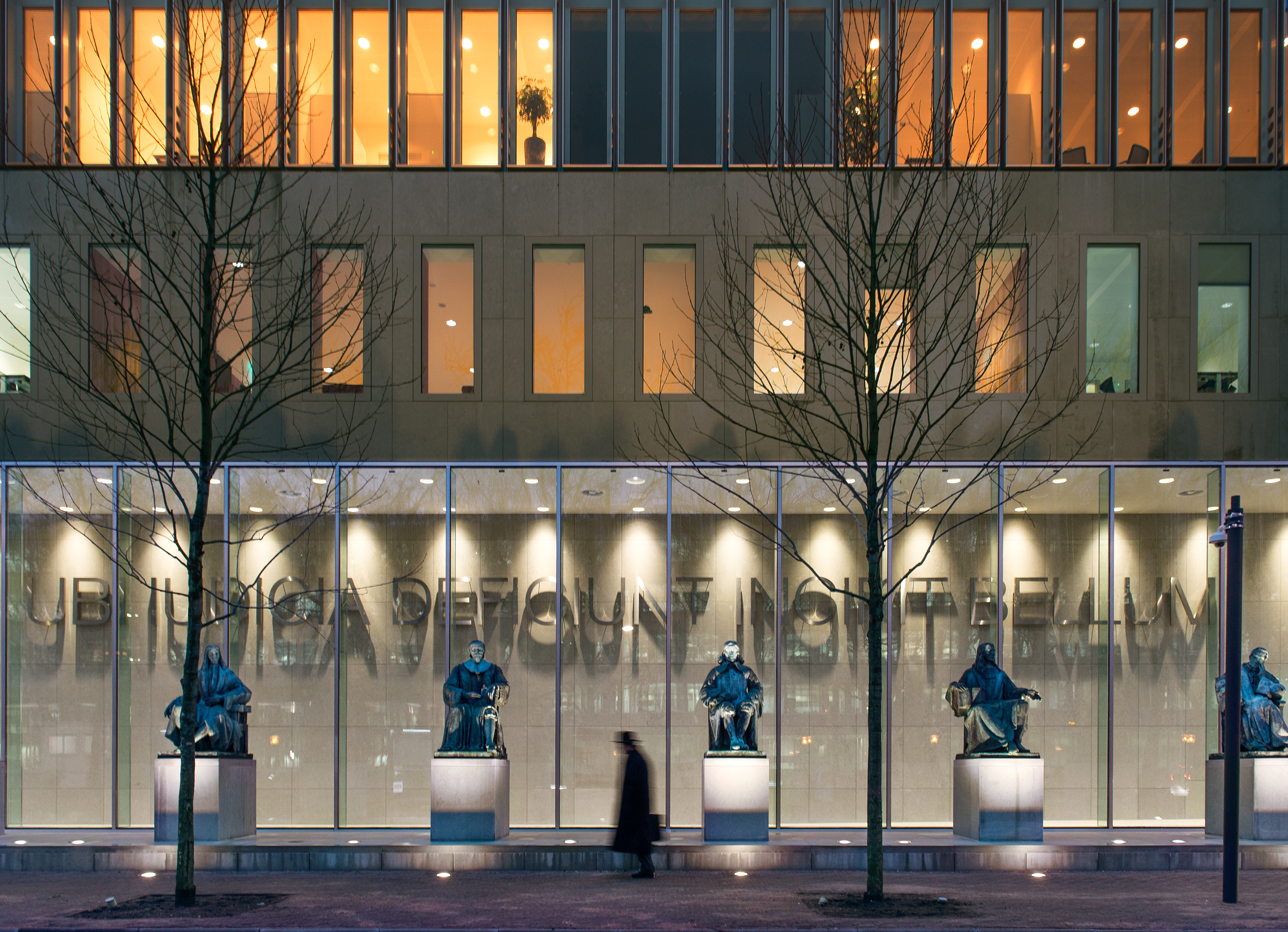 Supreme Court of the Netherlands in The Hague. The official opening of the new building was on 1 March 2016. Its design is by Kaan Architects.